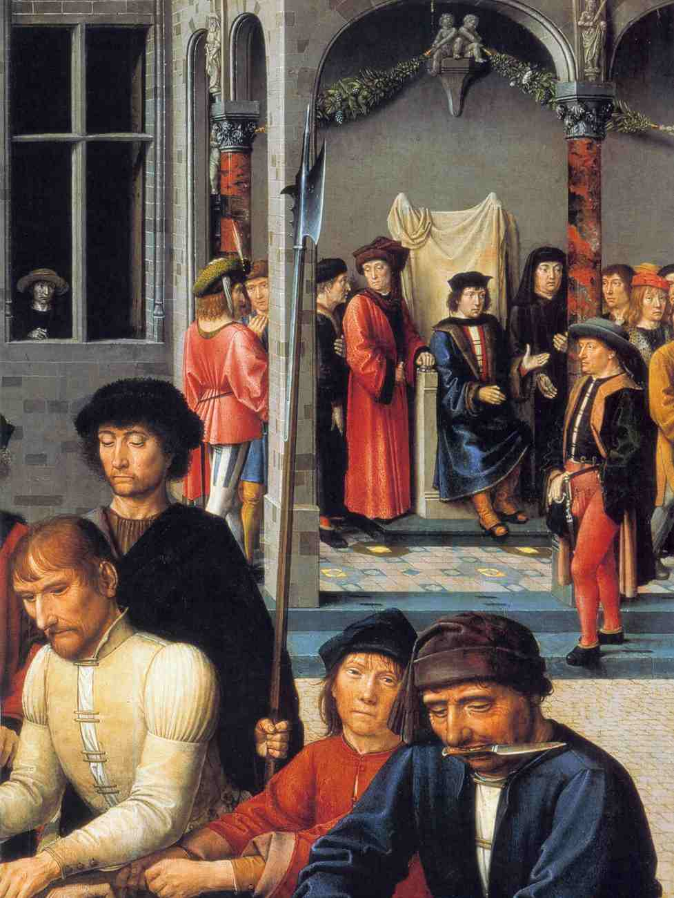 The Judgment of Cambyses (Detail) Oil on wood, 202 x 349,5 cm Groeninge Museum, Bruges